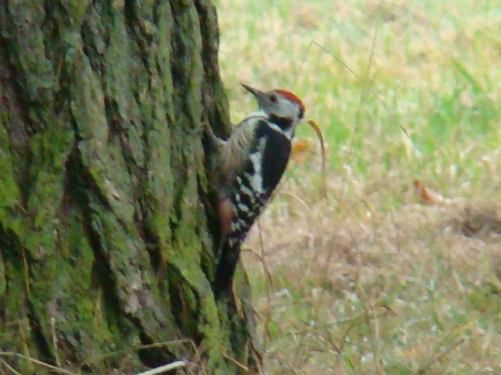 Photo of the Middle Spotted Woodpecker (Dendrocopos medius) in Vilnius Vingis park, Lithuania.